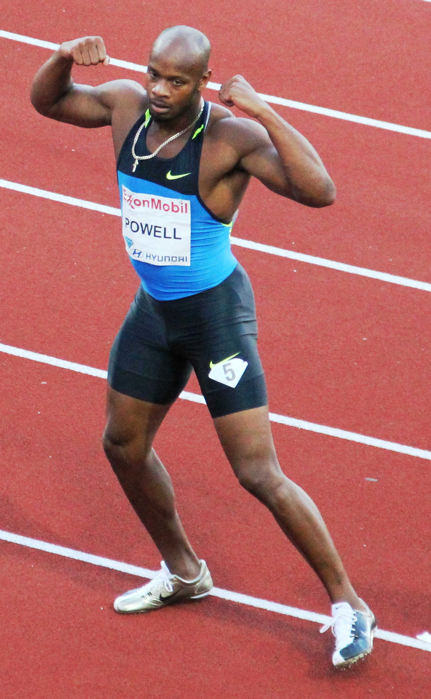 Asafa Powell after his 9.72 win and track record at the 2010 Bislett Games.